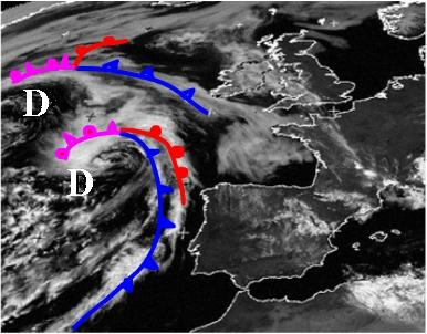 Meteorological map of Western Europe